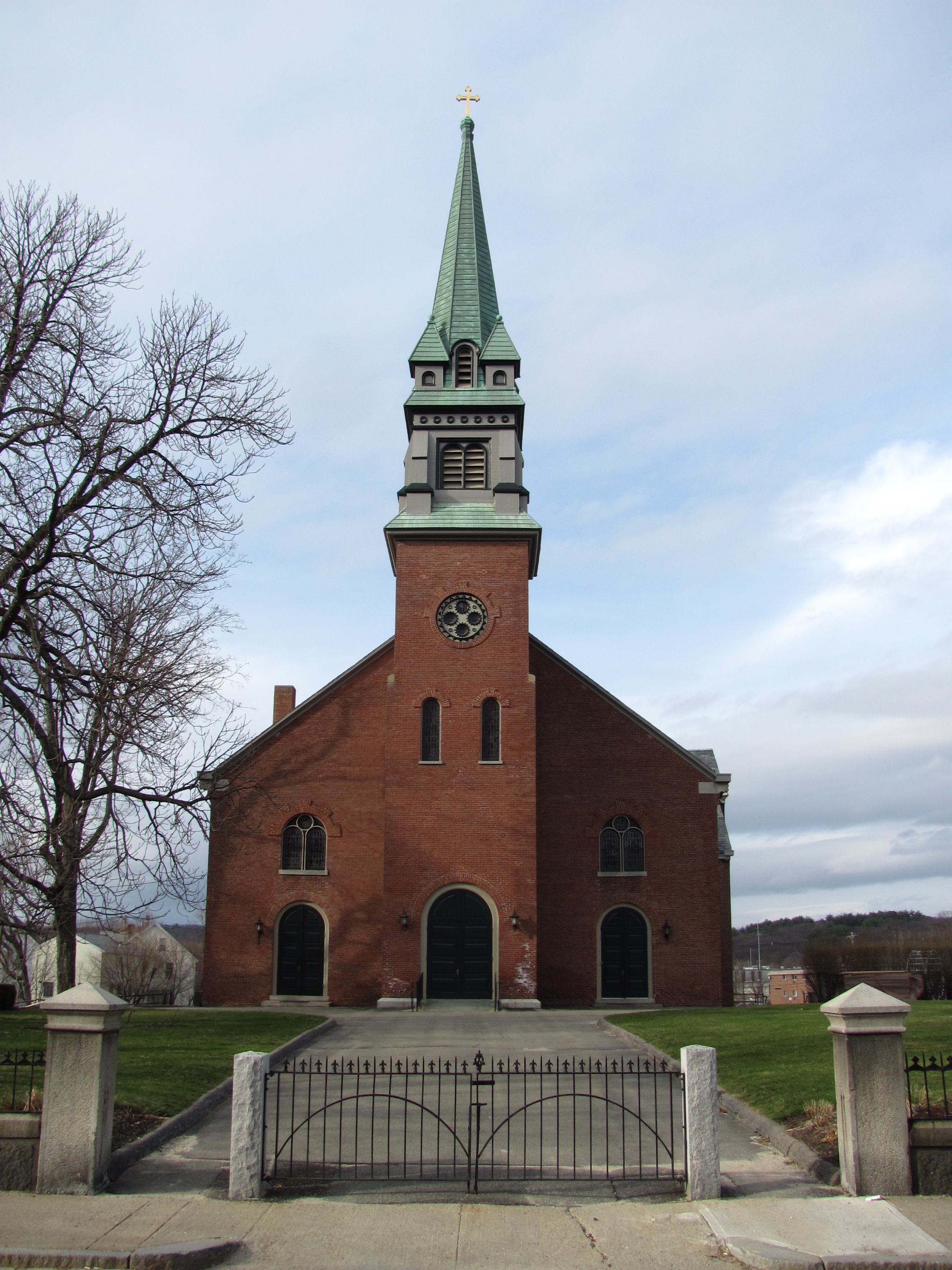 St. Mary's Roman Catholic Church, Waltham Massachusetts